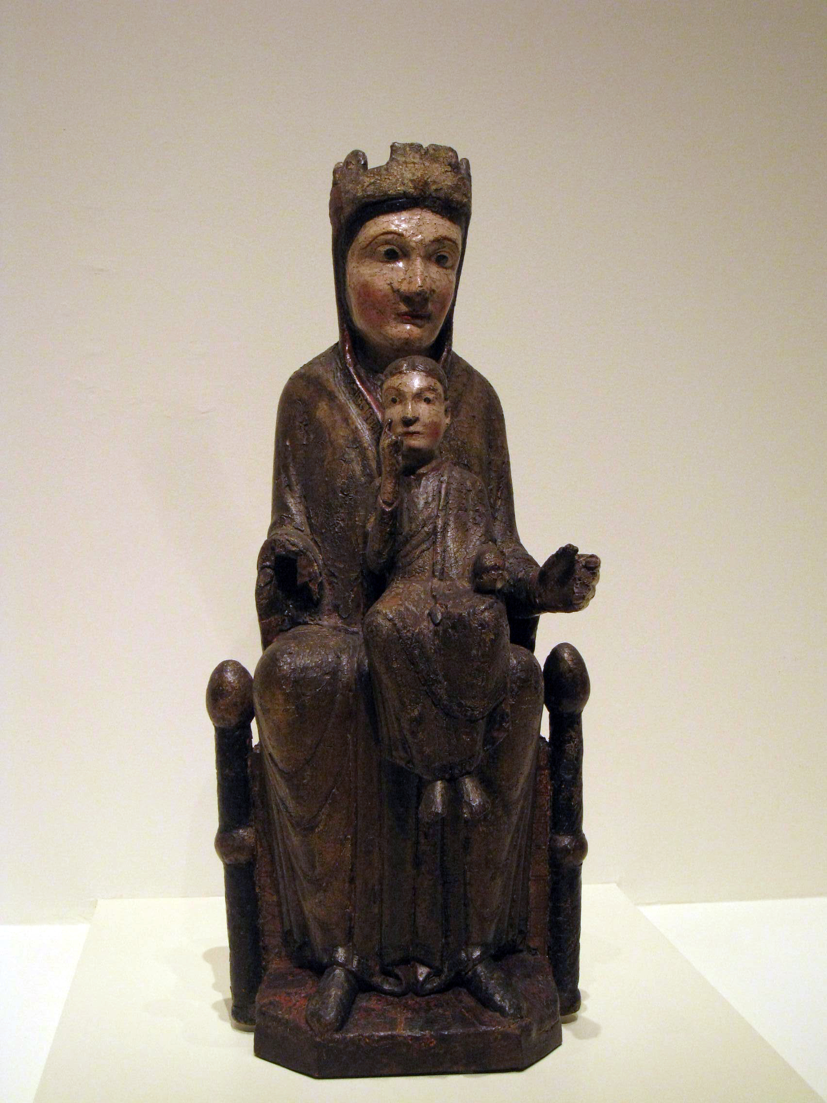 2nd half of the 12th century